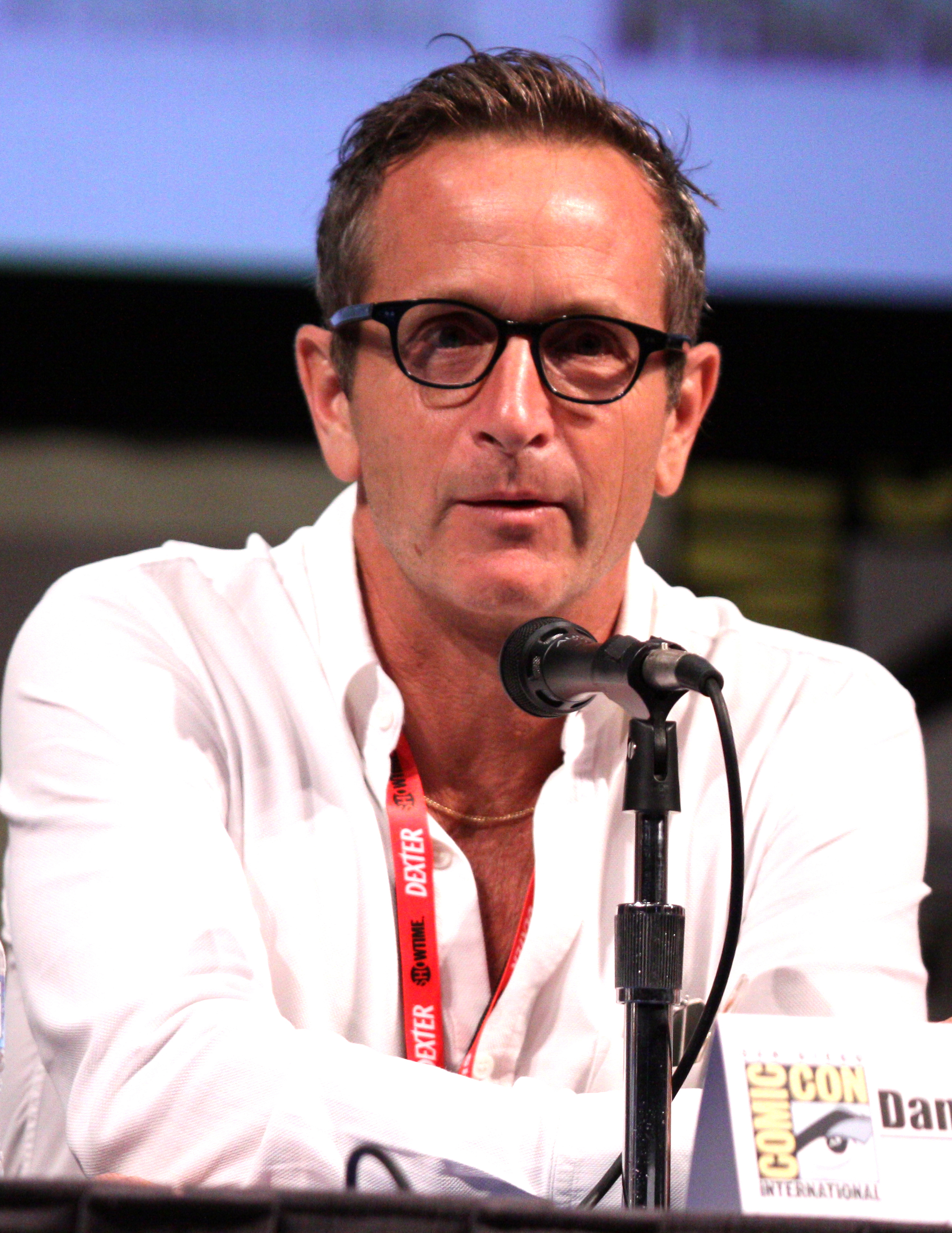 Dante Di Loreto at the 2011 Comic Con in San Diego